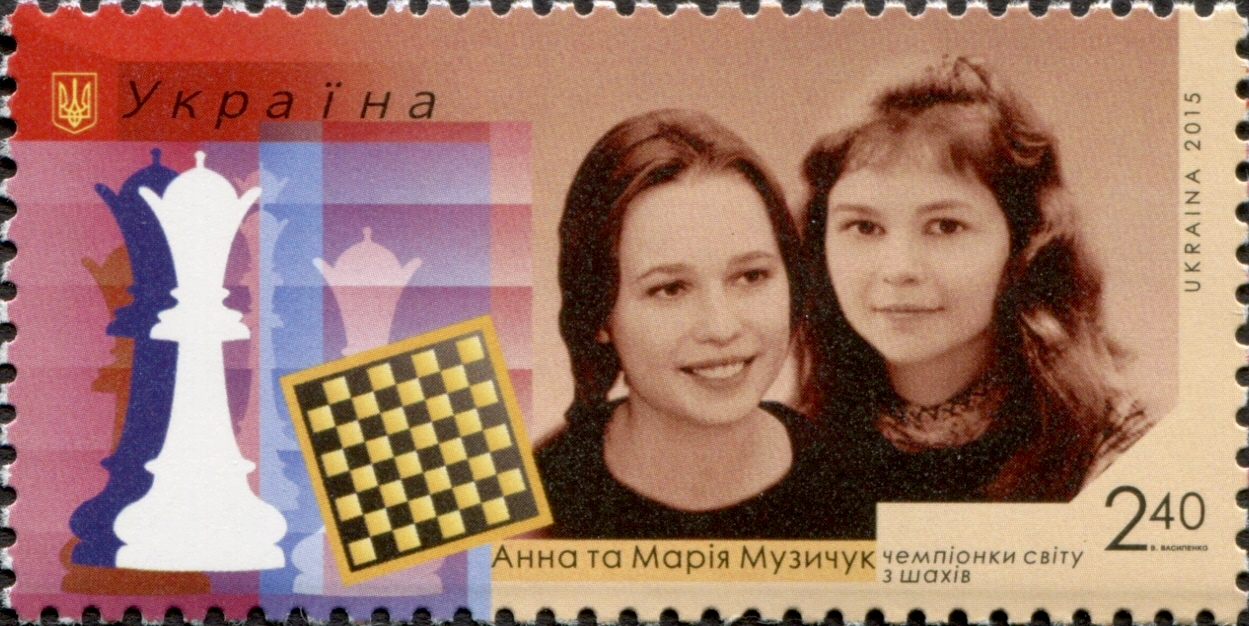 2015 Ukrainian postage stamp featuring sisters Anna Muzychuk and Mariya Muzychuk, Women's World Chess Champions.